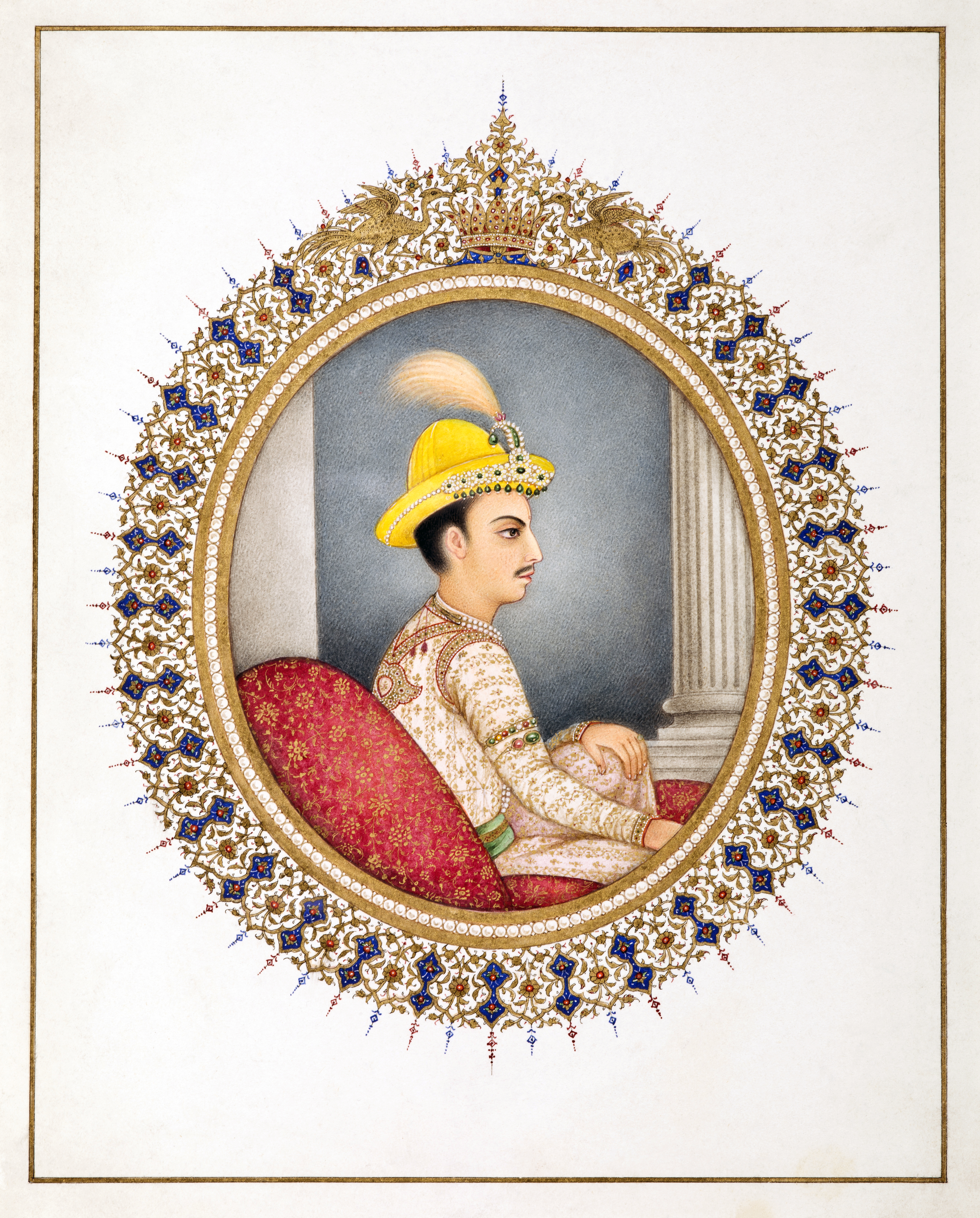 Nepal, circa 1815 Drawings; watercolors Opaque watercolor and gold on paper Indian Art Special Purpose Fund (M.76.129) South and Southeast Asian Art File:King Girvan Yuddhavikram Shah (1797-1816) LACMA M.76.129.jpg File:King Girvan Yuddhavikram Shah (1797-1816) (restoration).jpg